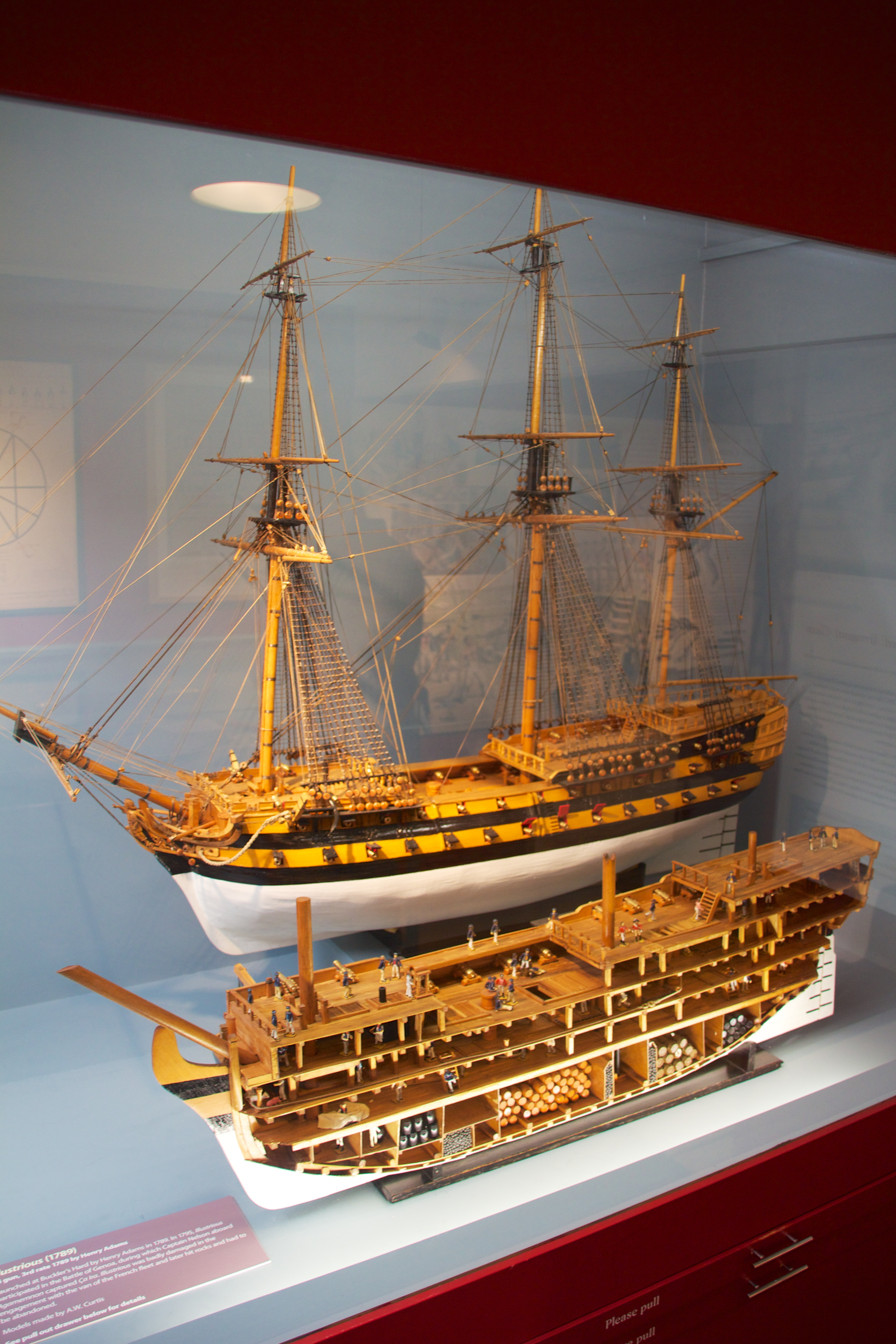 Illustrious (1789). Models made by A.W. Curtis. Buckler's Hard Maritime Museum, Beaulieu, Hampshire, United Kingdom.